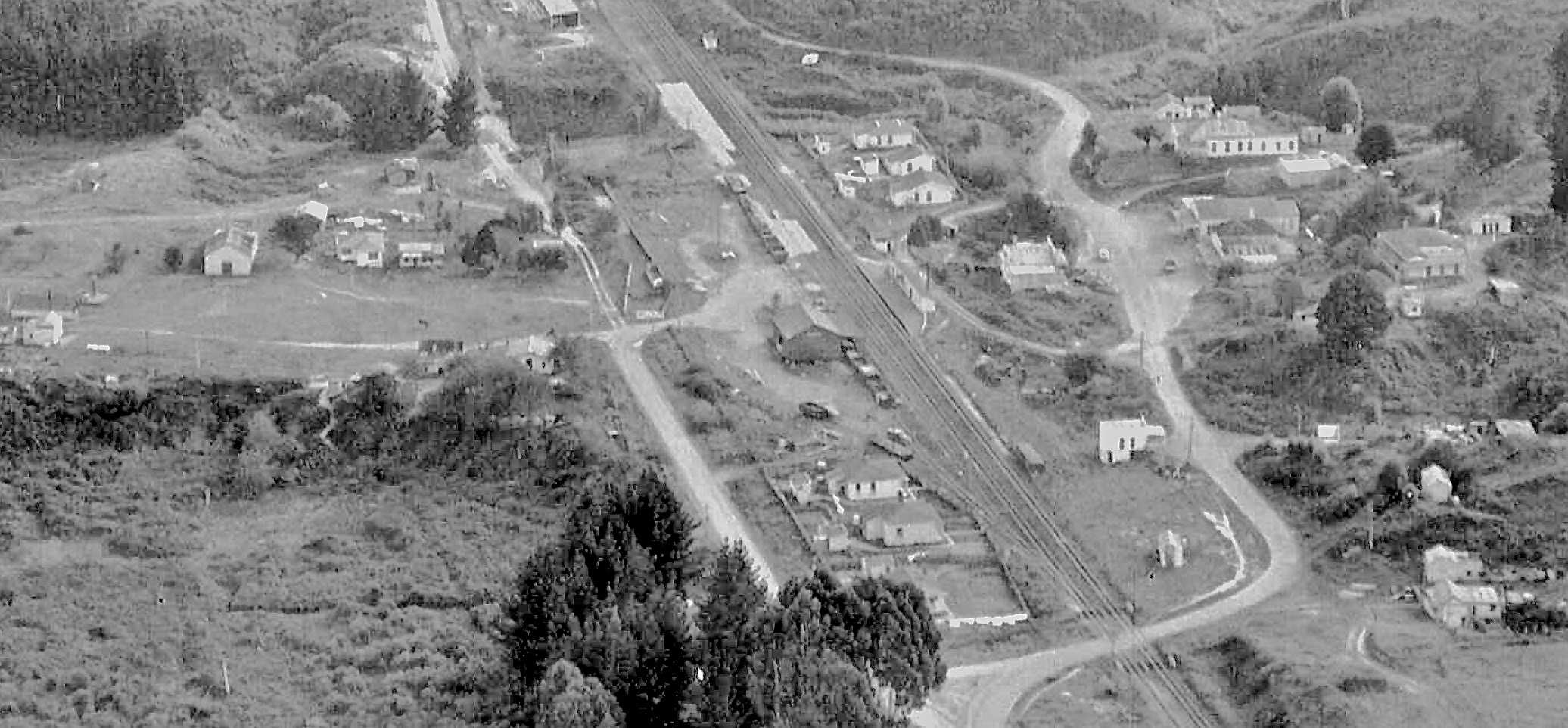 Waimiha, Manawatu-Wanganui, showing Poro-O-Tarao Road with railway line and station, Ongarue-Waimiha Road and school within valley with hills surrounding. Whites Aviation Ltd: Photographs. Ref: WA-38580-F. Alexander Turnbull Library, Wellington, New Zealand. /records/23530183